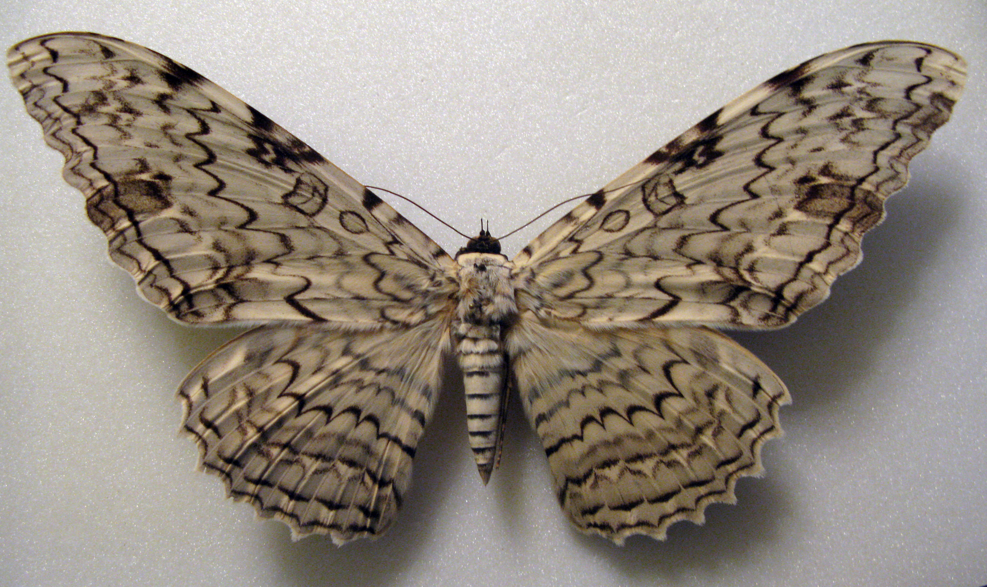 Thysania agrippina